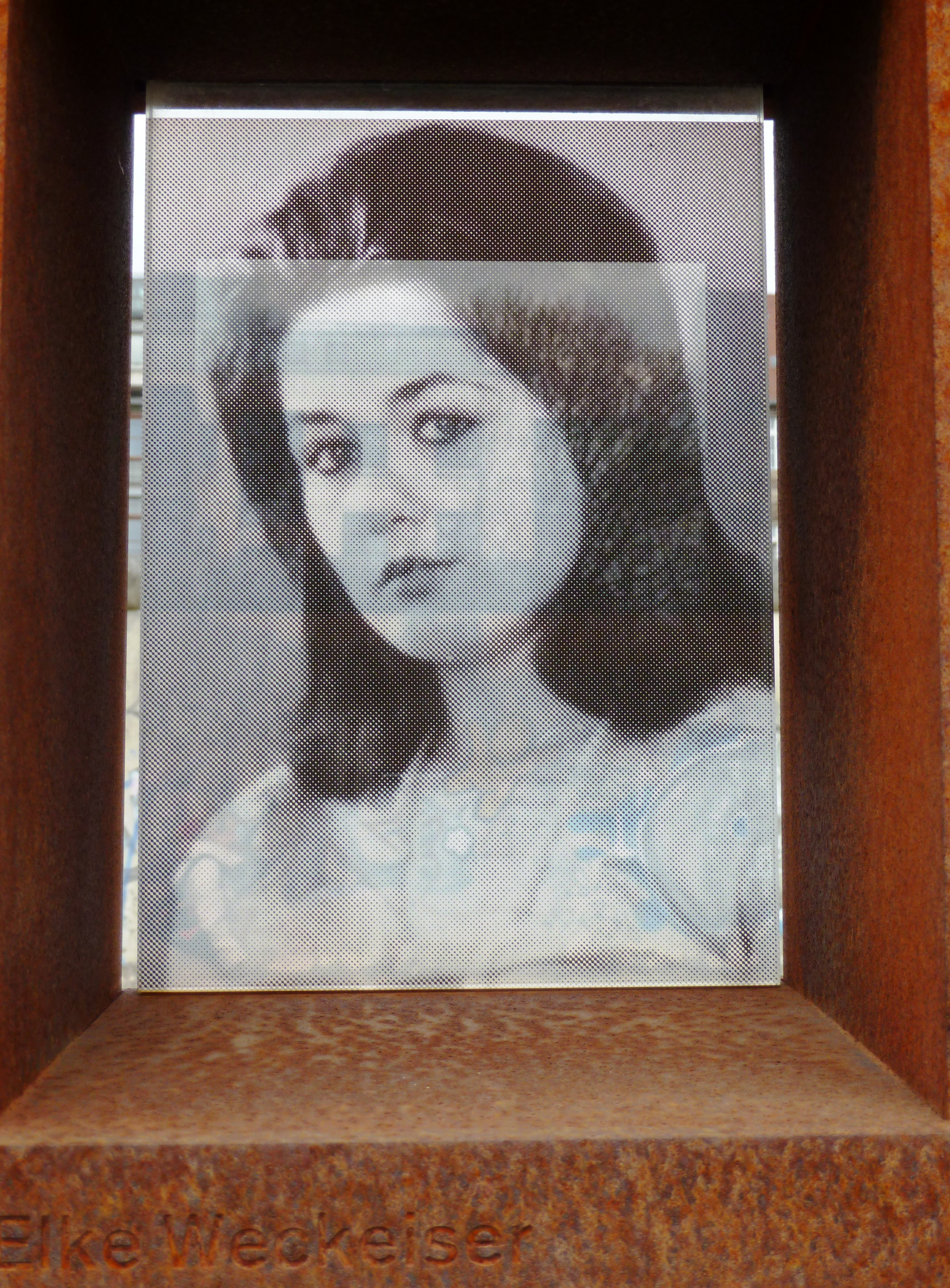 I took the picture myself at the Berlin Wall Memorial on Bernauer Strasse, in Berlin